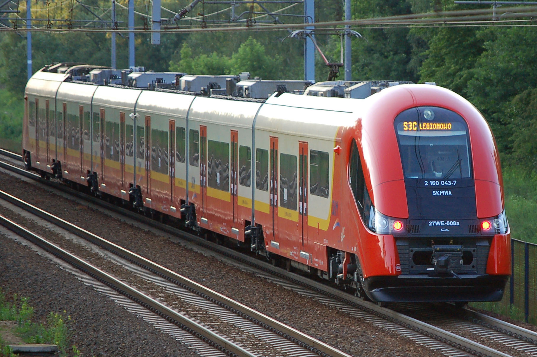 S3C line servicing by SMK 27WE heading towards Legionowo